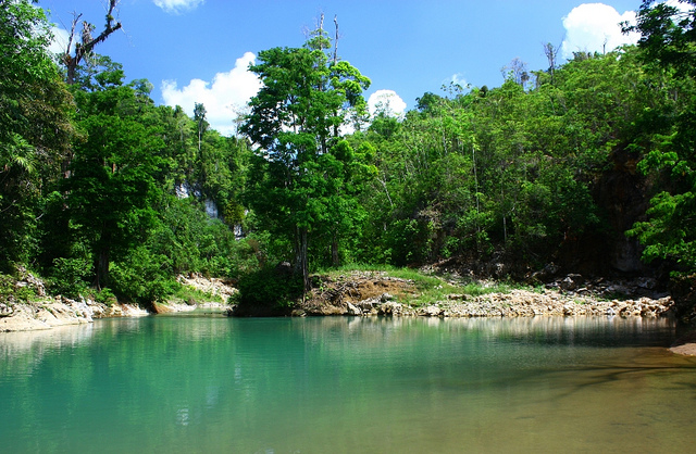 San Miguel Branch Licensing